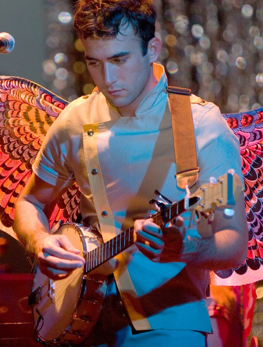 Sufjan Stevens performing at the Pabst Theater in Milwaukee. Photo taken from shifting pixel, photographer: Joe Lencioni.